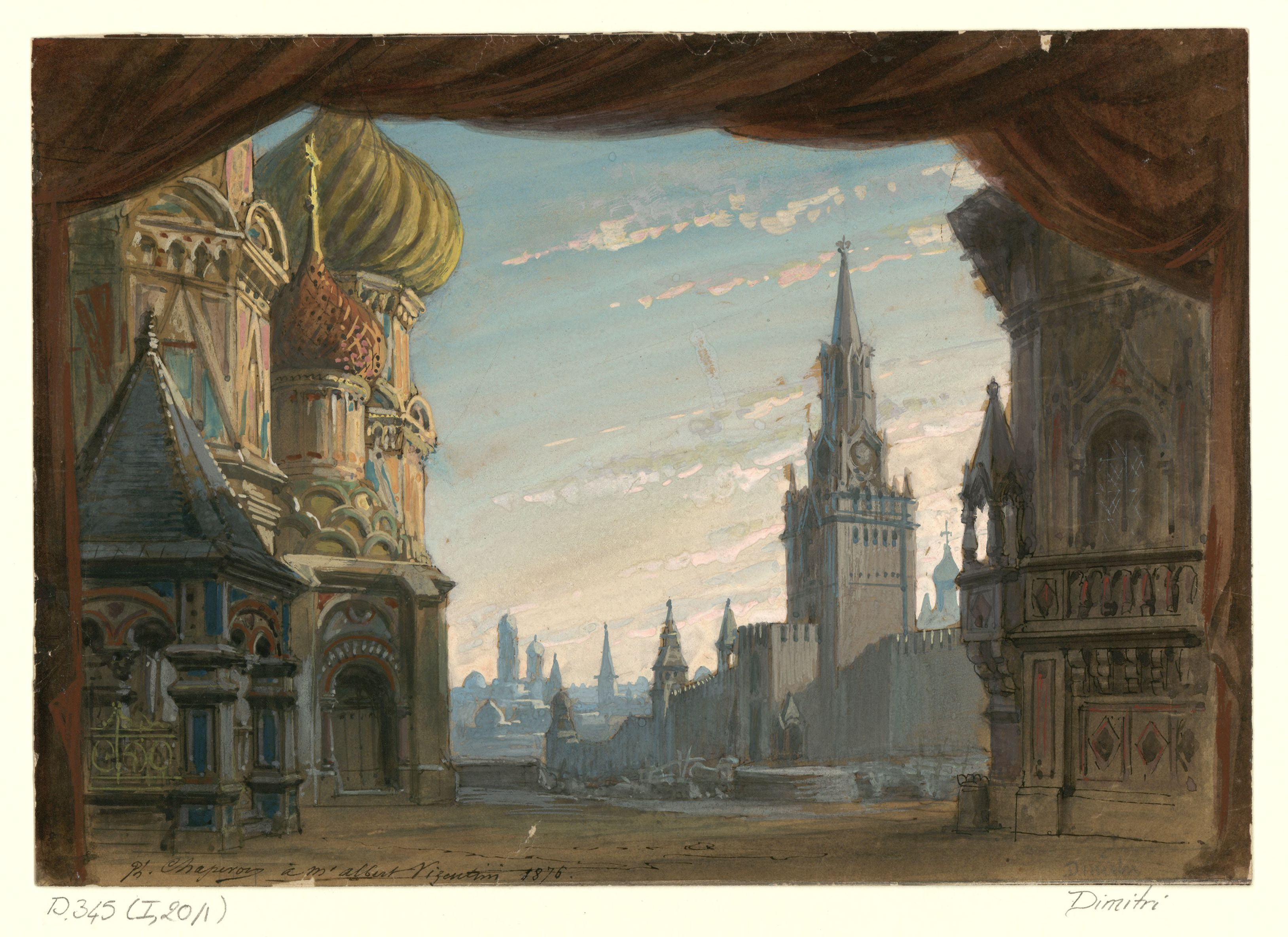 Set design for Act V in the première of Victorin Joncières's Dimitri: Red Square, Moscow, with Saint Basil's Cathedral stage right and the Kremlin stage left. Watercolour and gouache, 182 x 260 mm